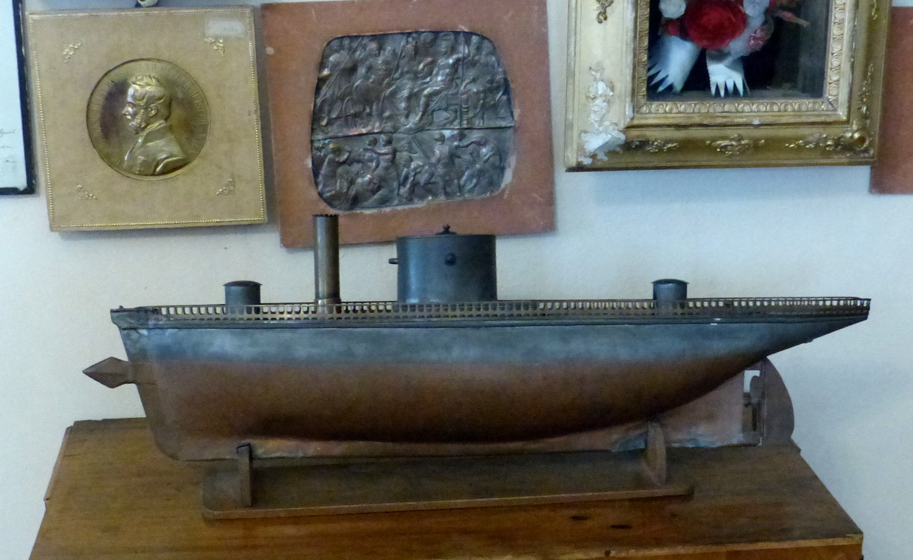 Kynžvart palace ( Czech Republic ). Museum: Curiosity cabinet - Model of the USS Monitor ( 1862 )